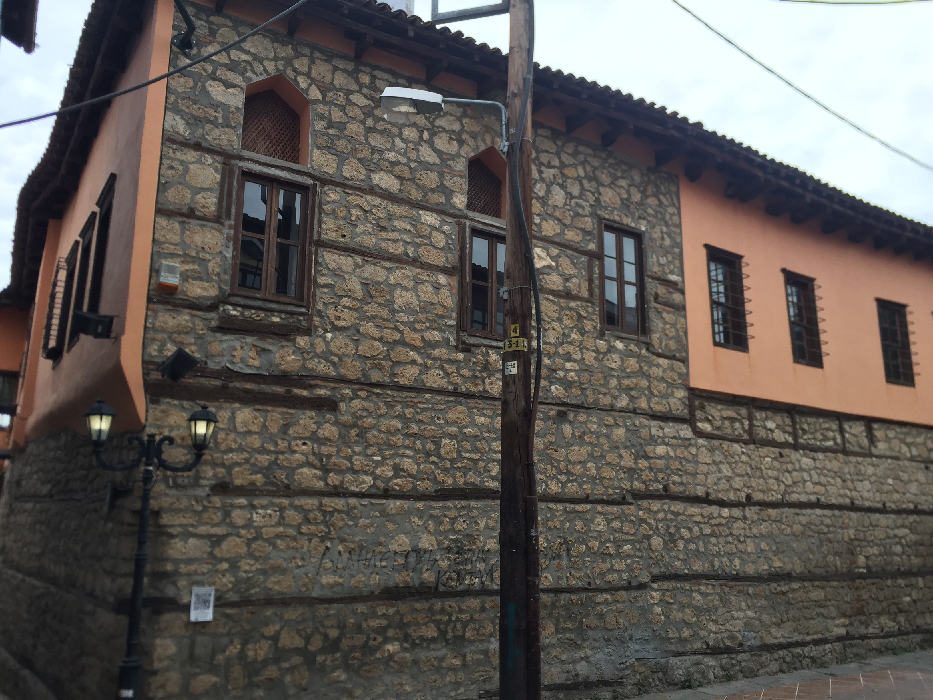 Sarafoglou Mansion«Αρχοντικό Σαράφογλου»